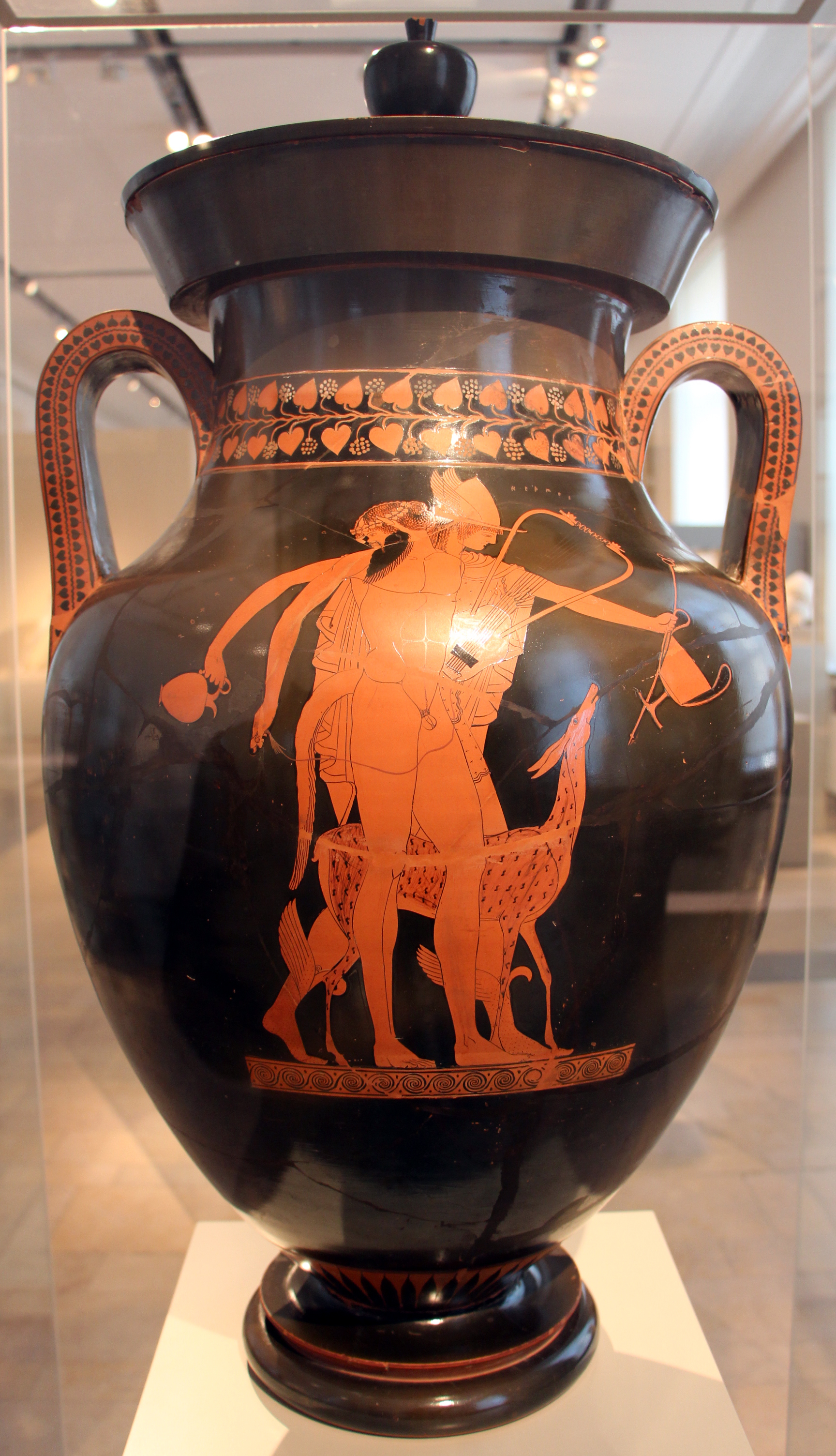 Ancient Greek pottery in the Antikensammlung Berlin